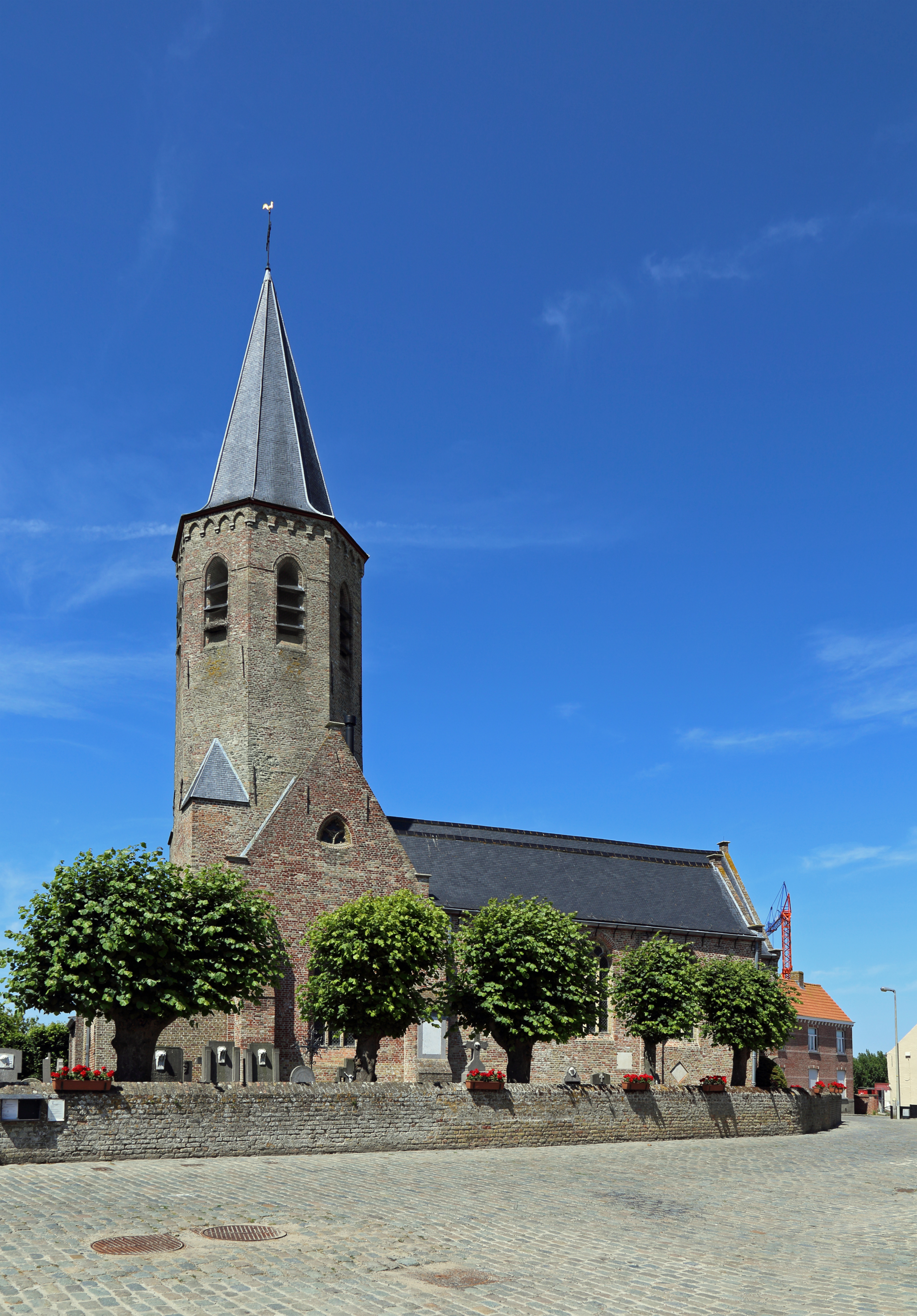 Meetkerke (municipality of Zuienkerke, province of West Flanders, Belgium): church of the Assumption of Mary